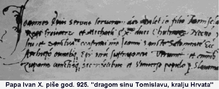 A part of the letter written by pope John X to king Tomislav of Croatia in 925, in which Tomislav is titled as "king" (Latin: "rege")